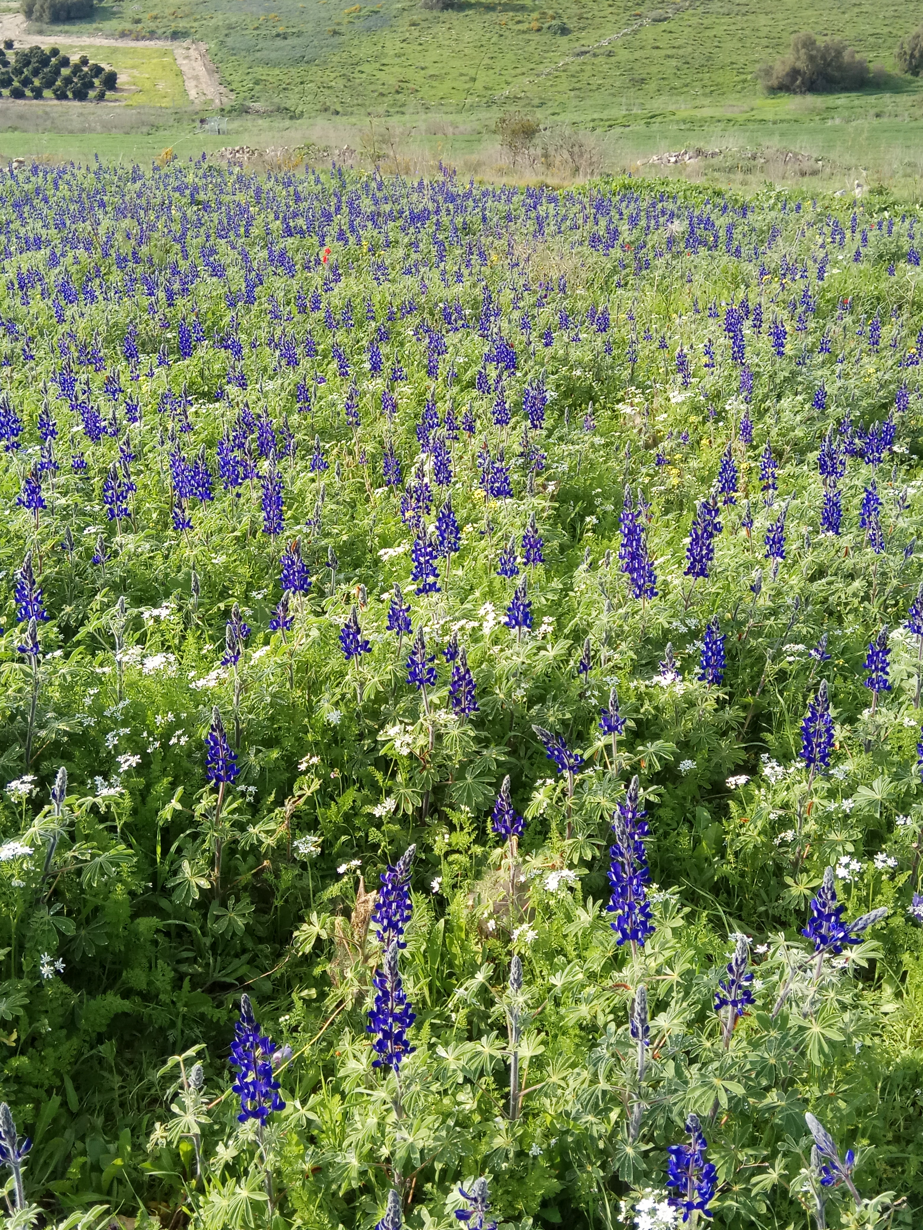 Lupinus pilosus in Ramot Menashe